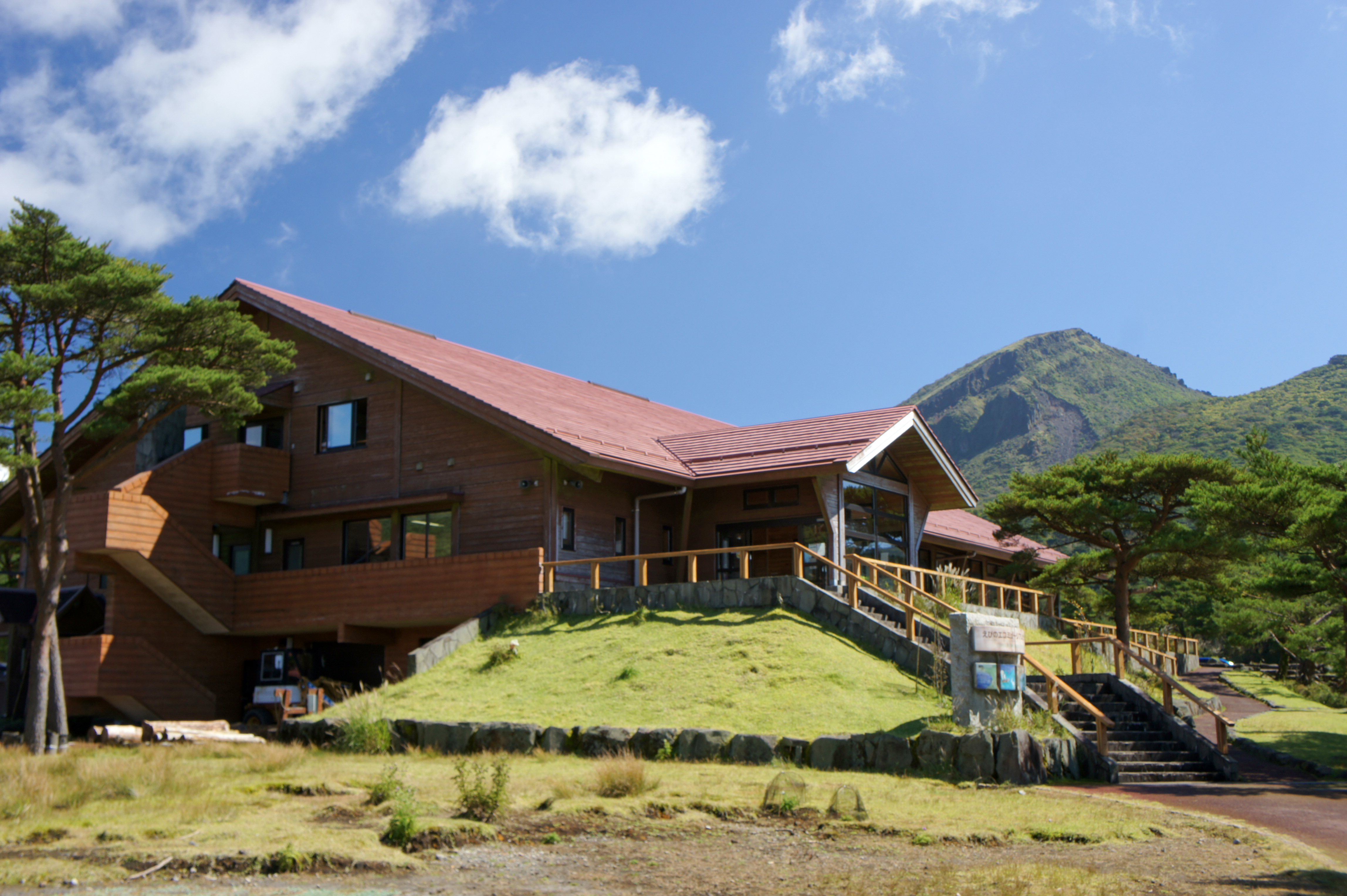 Ebin Plateau in Ebino, Miyazaki prefecture, Japan.